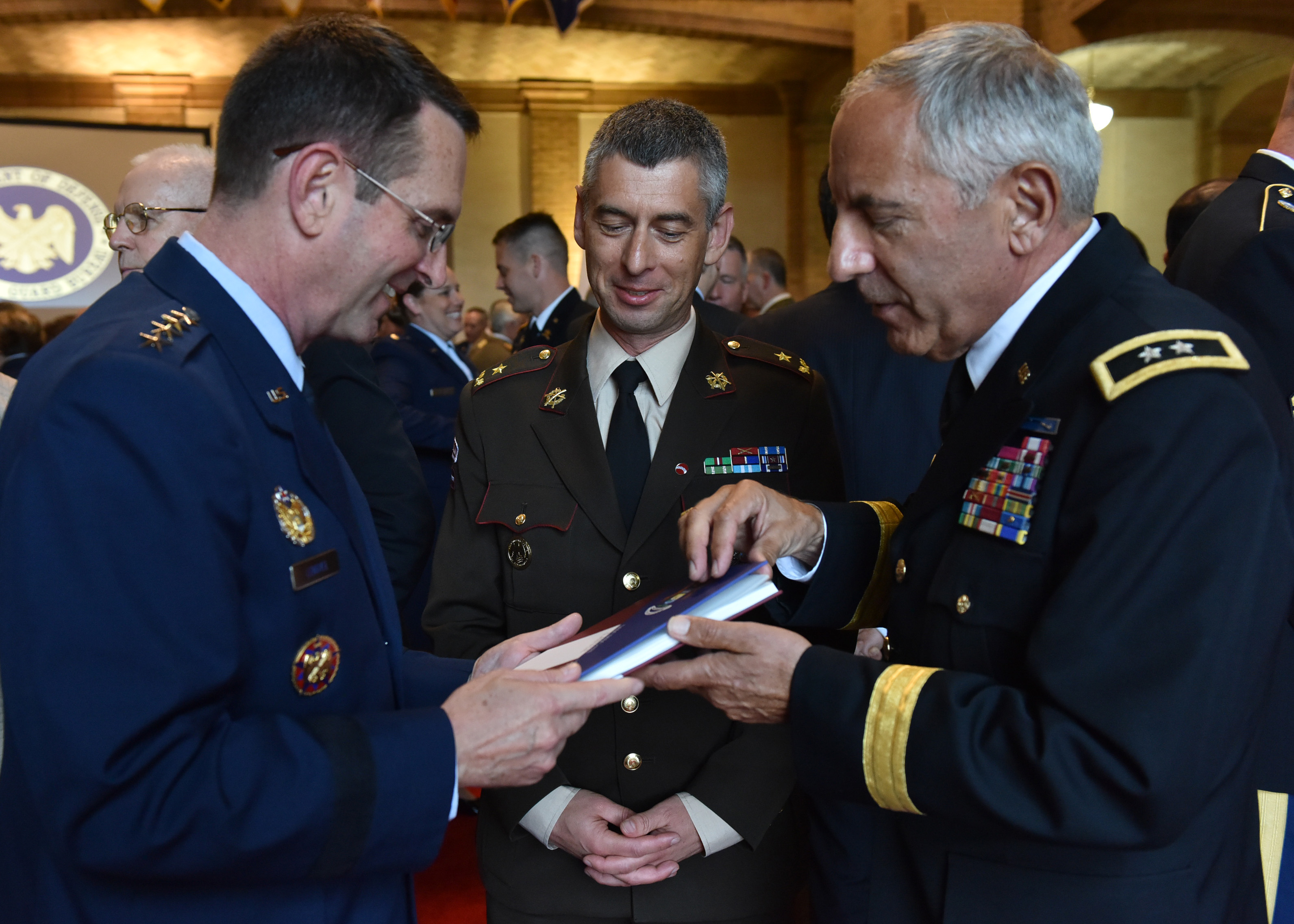 Air Force Gen. Joseph Lengyel, chief, National Guard Bureau, greets National Guard senior leaders, Department of Defense officials, foreign ambassadors and State Partnership Program partner representatives at a reception commemorating the 25th anniversary of the Department of Defense State Partnership Program at the National Defense University, Fort McNair, Washington, D.C., May 17, 2018. The SPP began in 1993 with three partnerships and now includes 74 partnerships with countries throughout the world. The program continues to successfully build relationships between U.S. states and partnered nations in a cooperative, mutually beneficial relationship. (U.S. Army National Guard photo by Staff Sgt. Michelle Gonzalez)